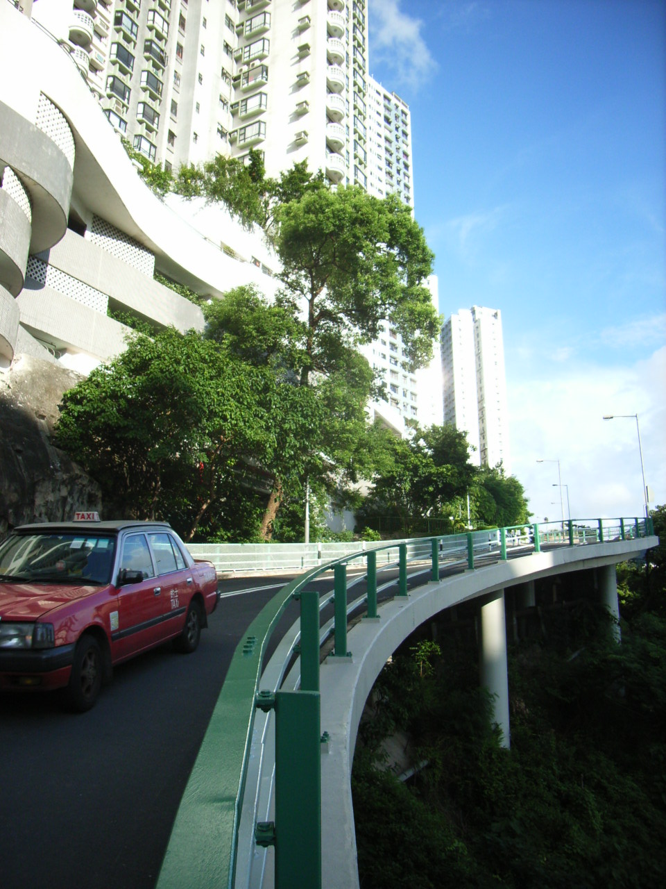 Broadwood Road, Happy Valley, Hong Kong Author: BEVERLYSHEN